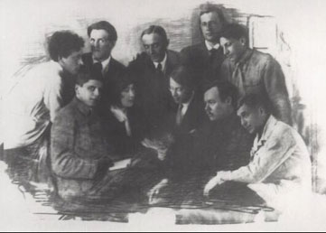 Serapionbrothers